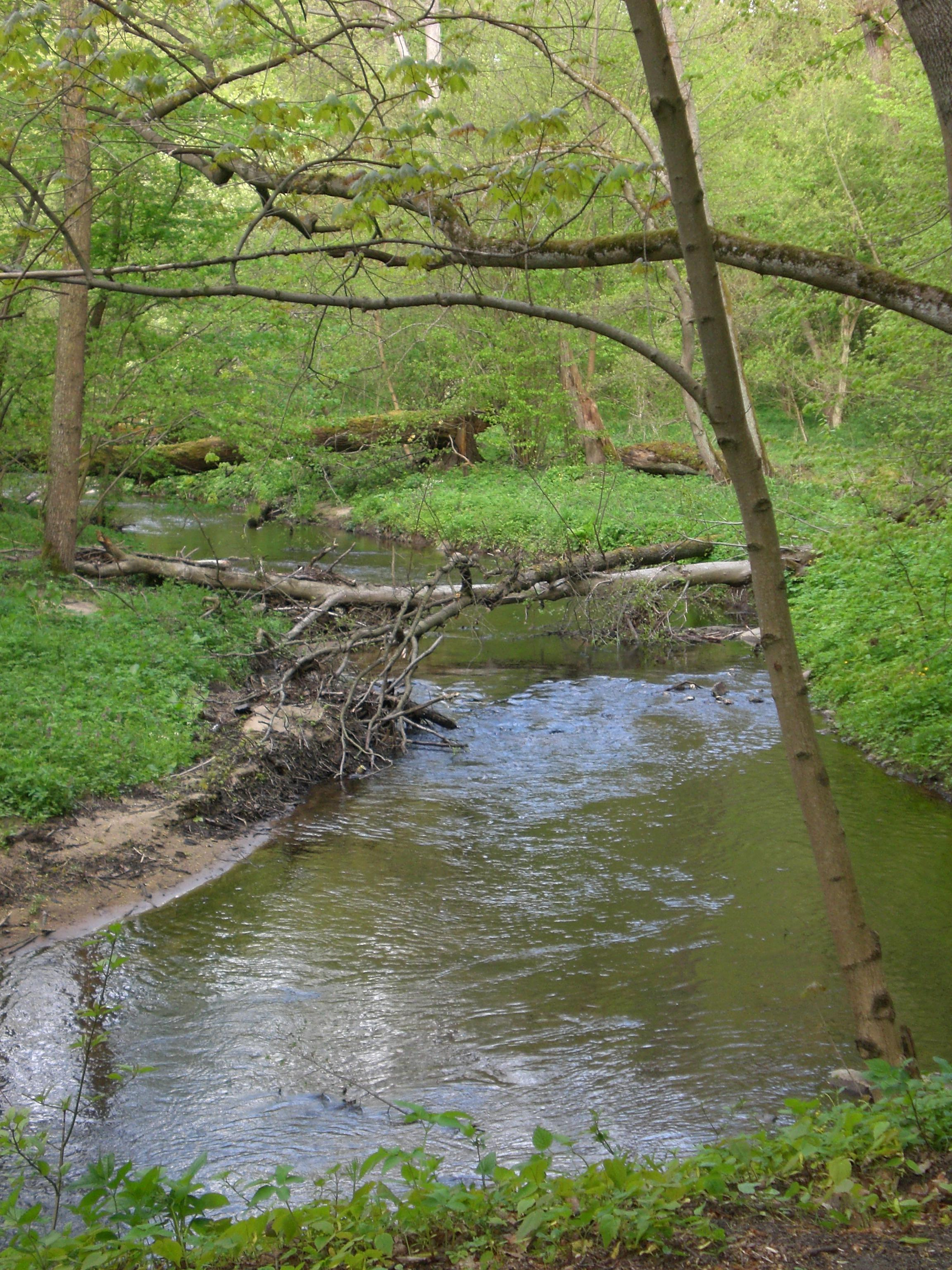 River Radunia in Bielkowo, Poland